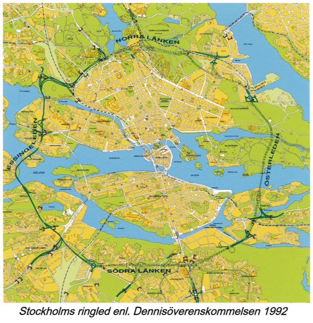 Highway ring around Stockholm